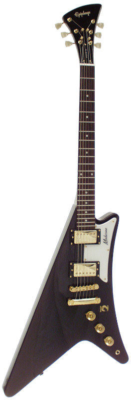 An Epiphone Moderne Limited Edition electric guitar.